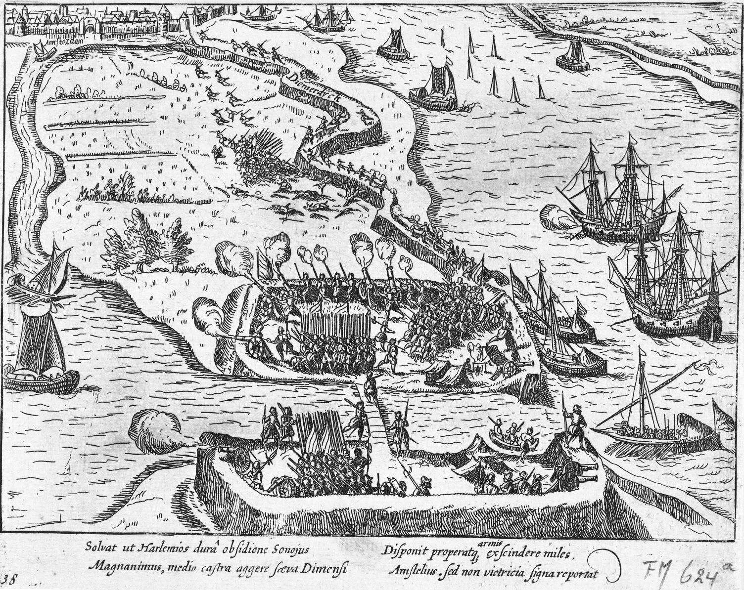 Battle of Diemerdijk at Amsterdam in 1573. Etching.